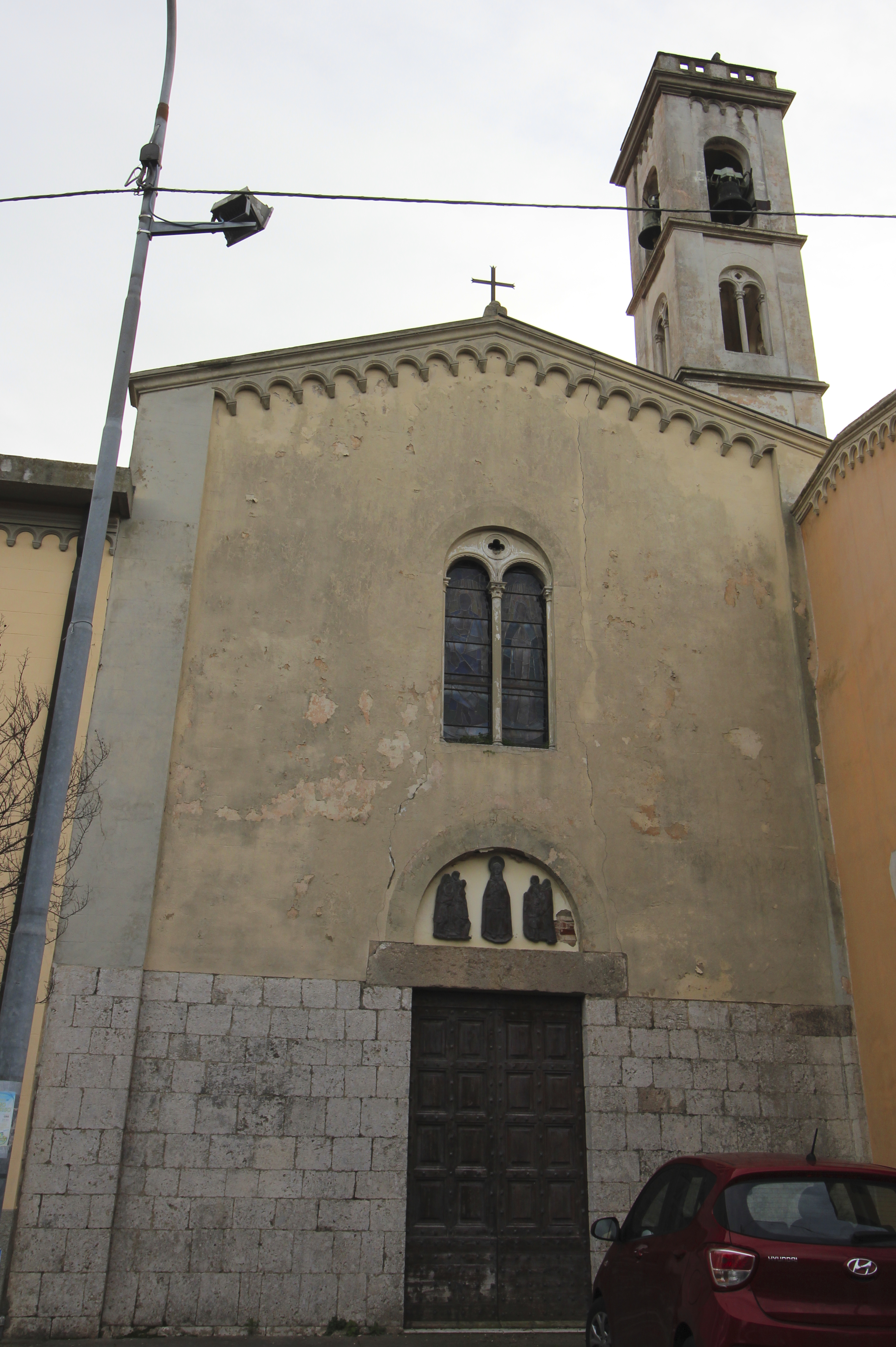 Church Santa Maria Assunta, Mezzana, hamlet of San Giuliano Terme, Province of Pisa, Tuscany, Italy